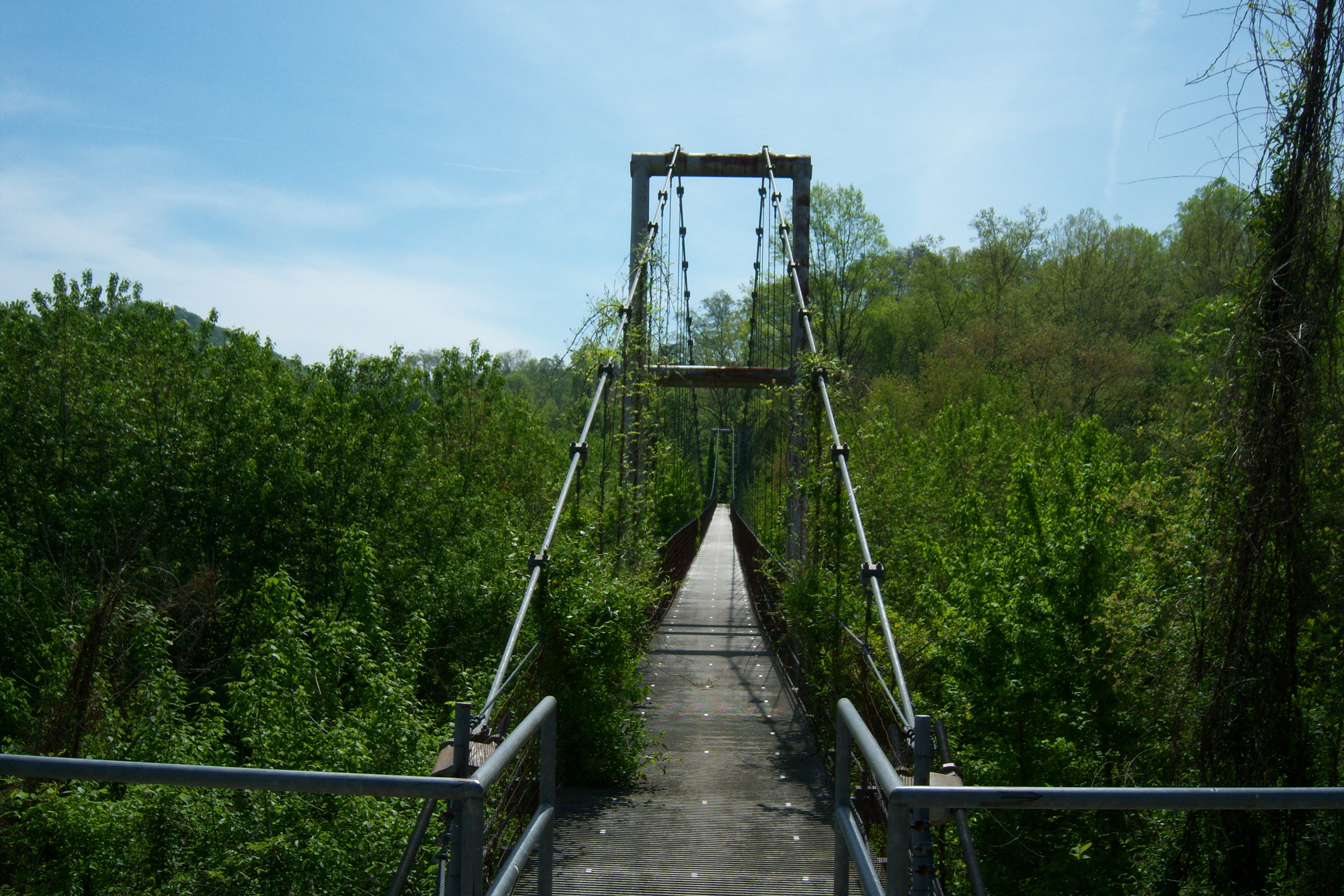 A picture of the Forrest and Maxie Preston Memorial Bridge located at River, Kentucky. The 420 foot long bridge is the worlds longest "plastic" bridge (the deck of the bridge is made of glass fiber-reinforced polymer composites).